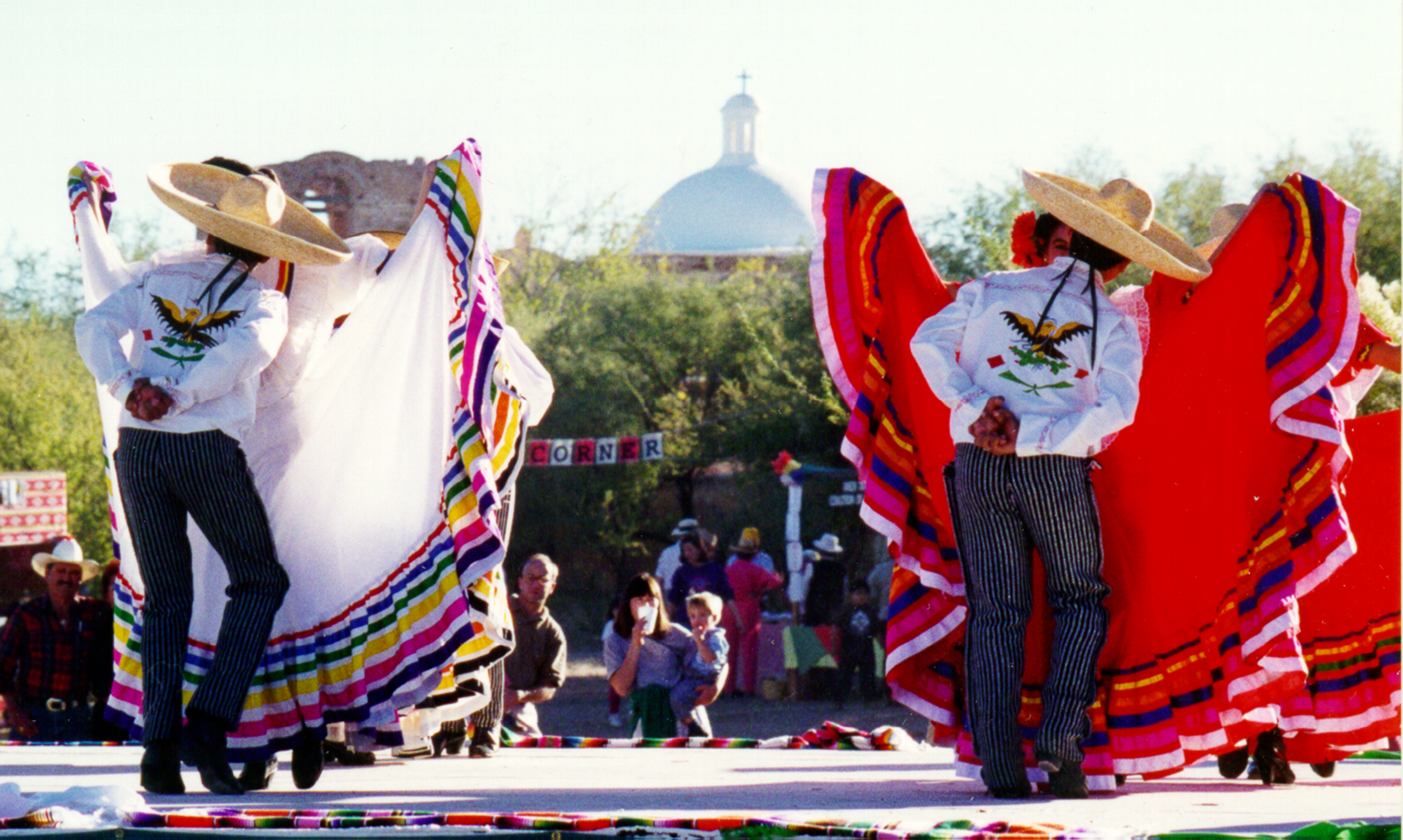 "Folklórico dancers come from all over Arizona and northern Sonora to perform at Tumacácori's annual Fiesta."